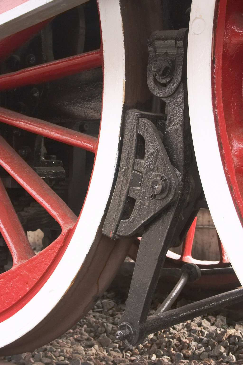 Steam locomotive S brakes